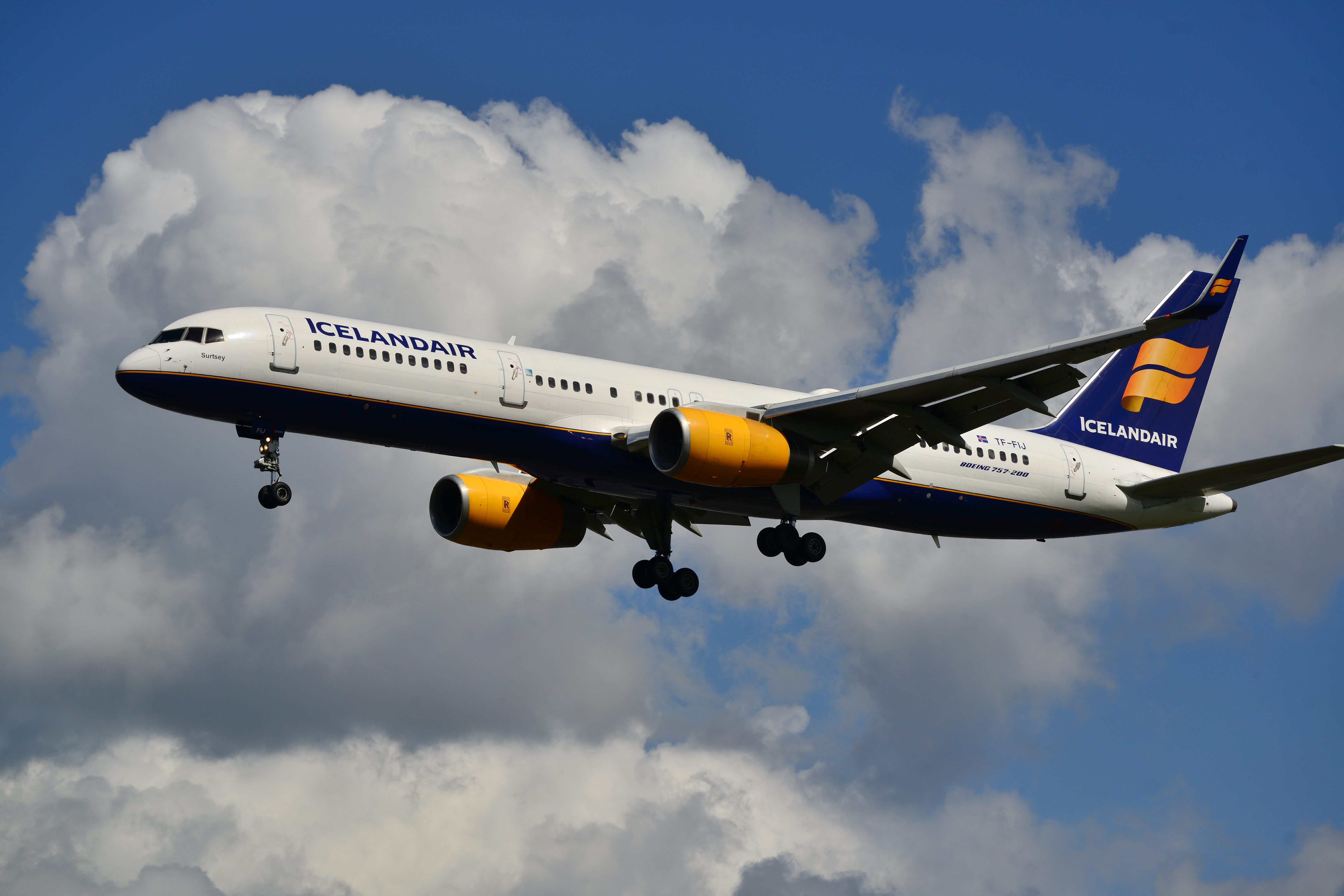 Icelandair, TF-FIJ Boeing 757